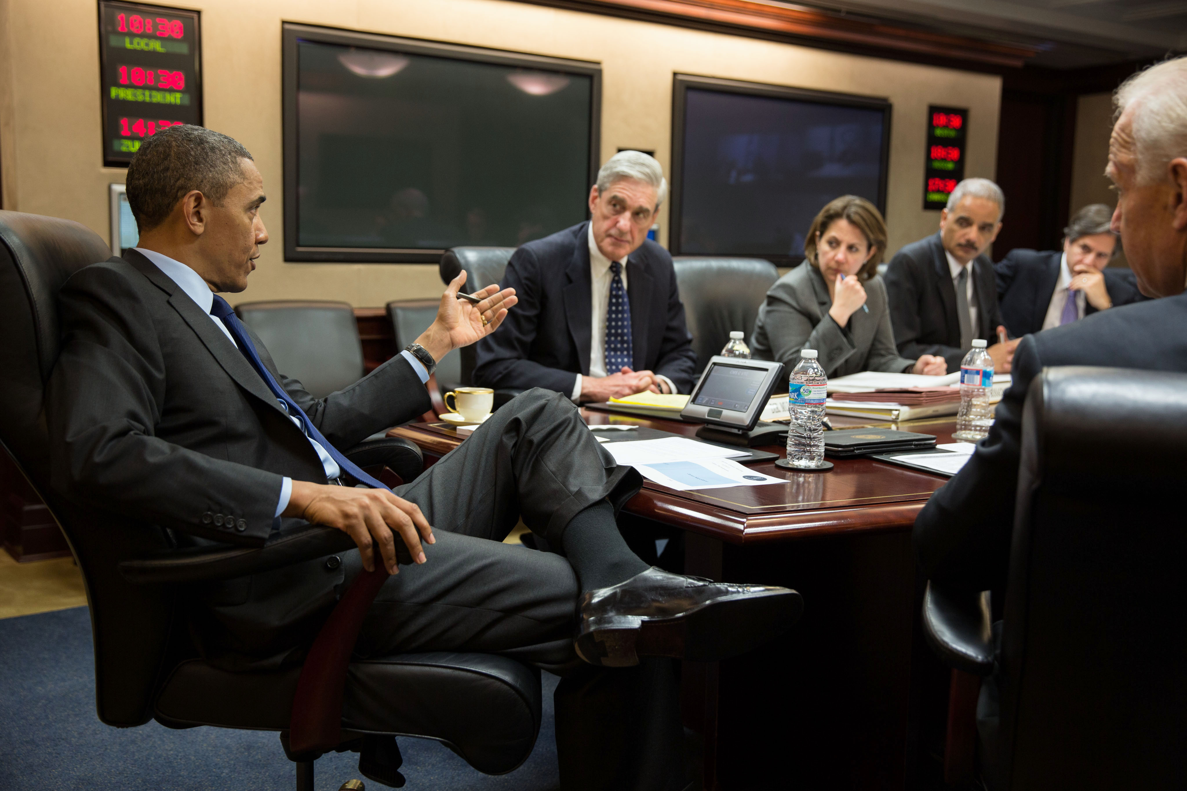 United States President Barack Obama meeting with members of his national security team to discuss developments in the Boston Marathon bombings investigation, in the Situation Room of the White House on 19 April 2013. Pictured, from left, are: FBI Director Robert Mueller; Lisa Monaco, Assistant to the President for Homeland Security and Counterterrorism; Attorney General Eric Holder; Deputy National Security Advisor Tony Blinken; and Vice President Joe Biden.